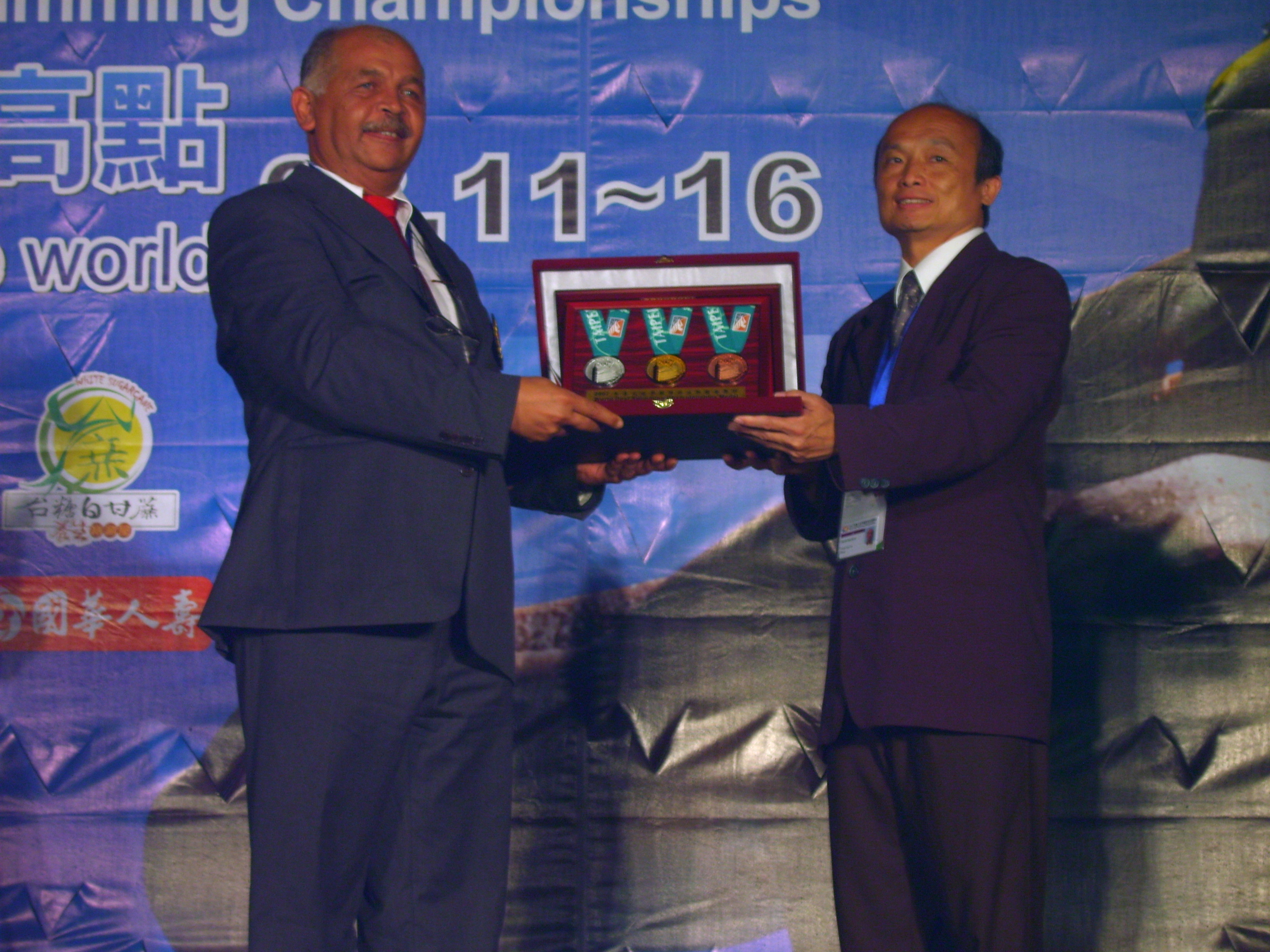 2007 World Deaf Swimming Championships: ICSD (International Committee of Sports for the Deaf) Athletes Commissioner Doğan Özdemir (left) and President of Chinese Taipei Sports Association for the Deaf (CTSAD) Chih-ho Chen (right).